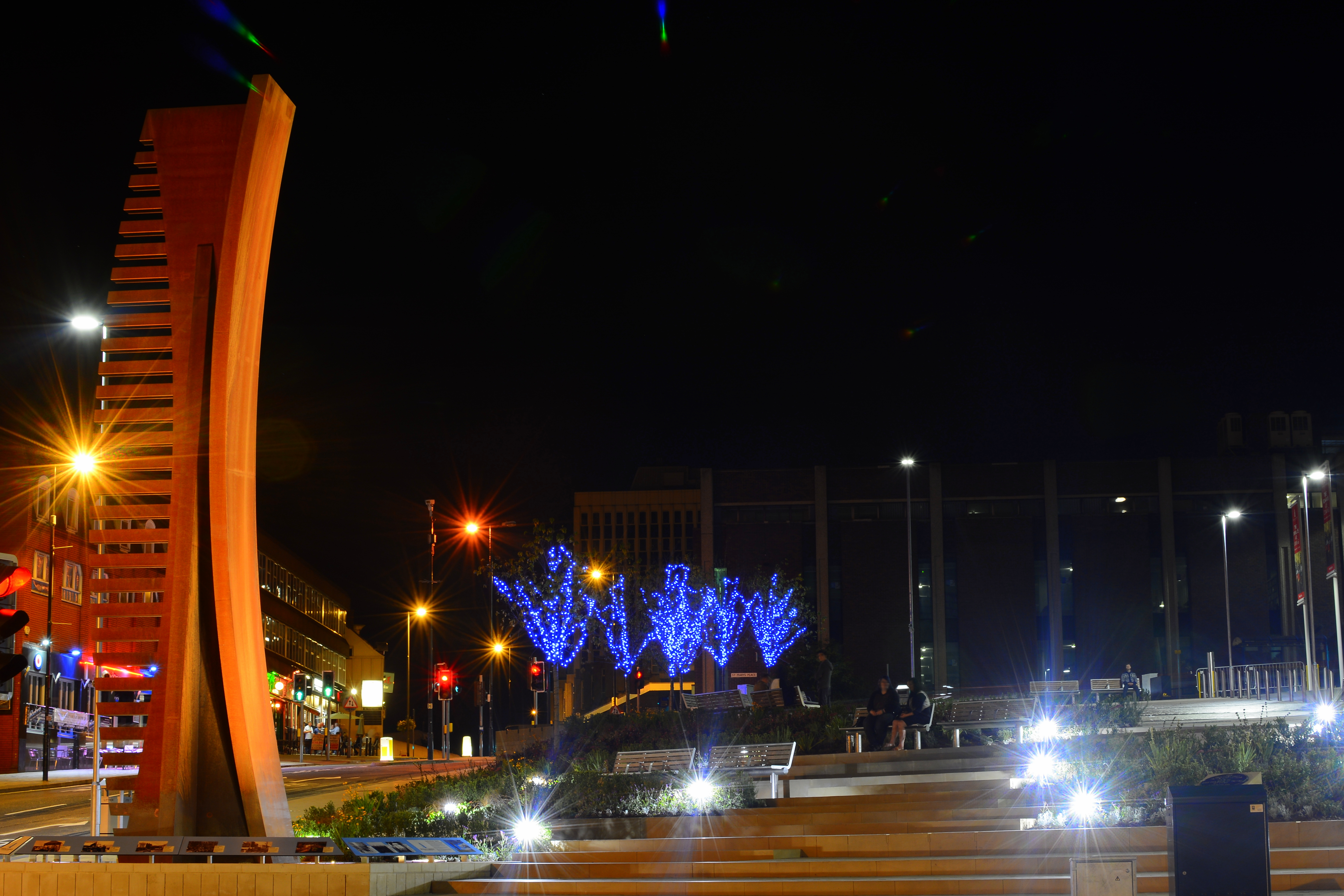 The areas of Market Hill and the Town Hall had received a lot of attention to improve the day and night images of Barnsley.